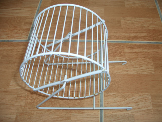 Hamster wheel.